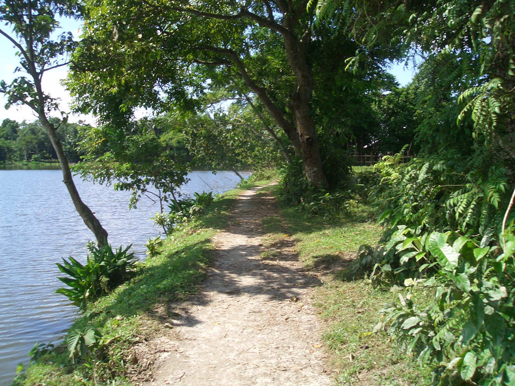 Gopaths